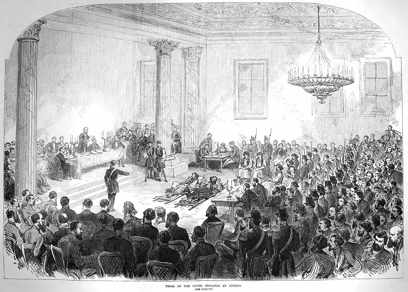 The trial of the Dilessi murders in Athens